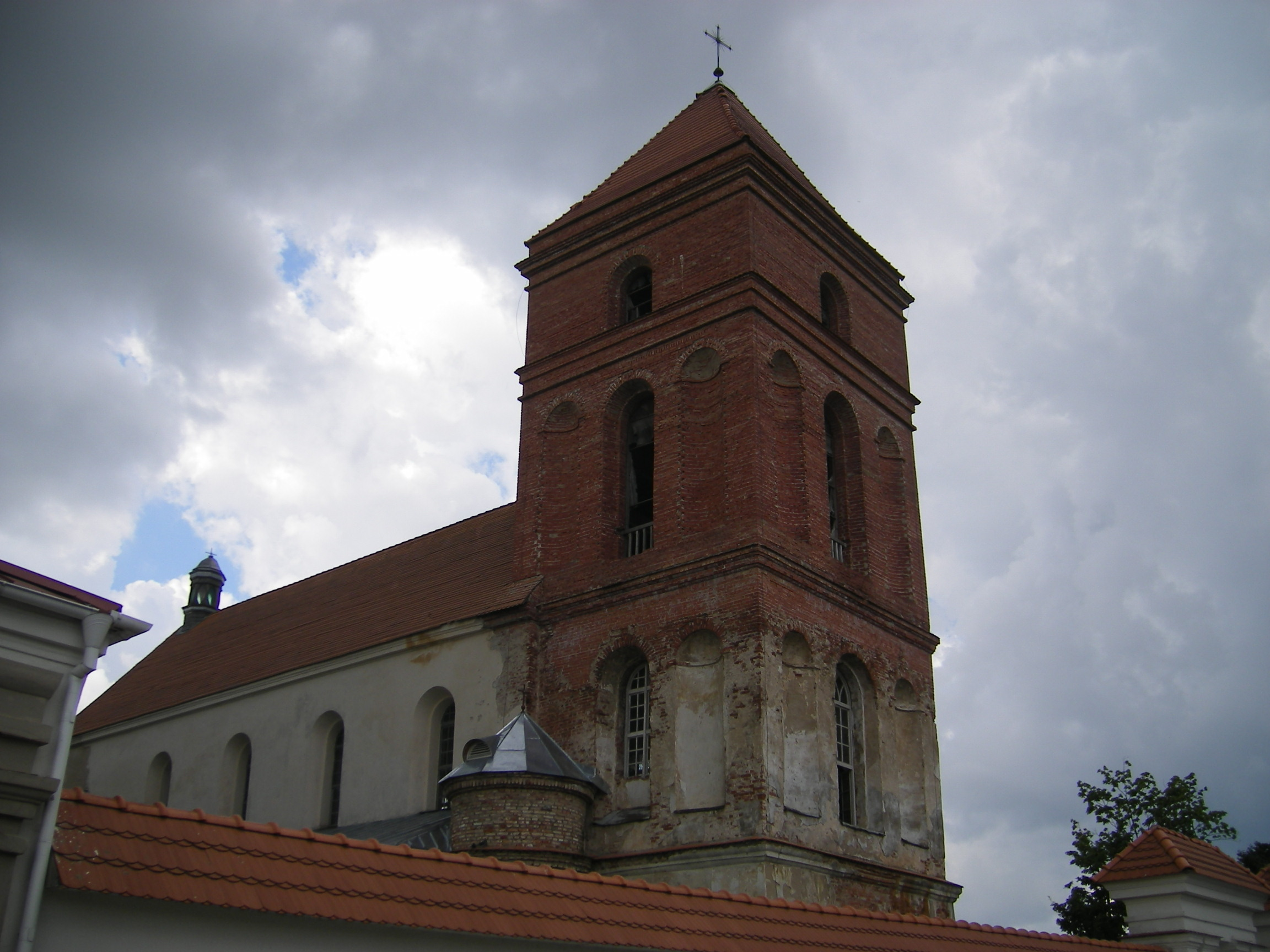 Church of Saint Bishop Nicholas. Mir, Belarus.